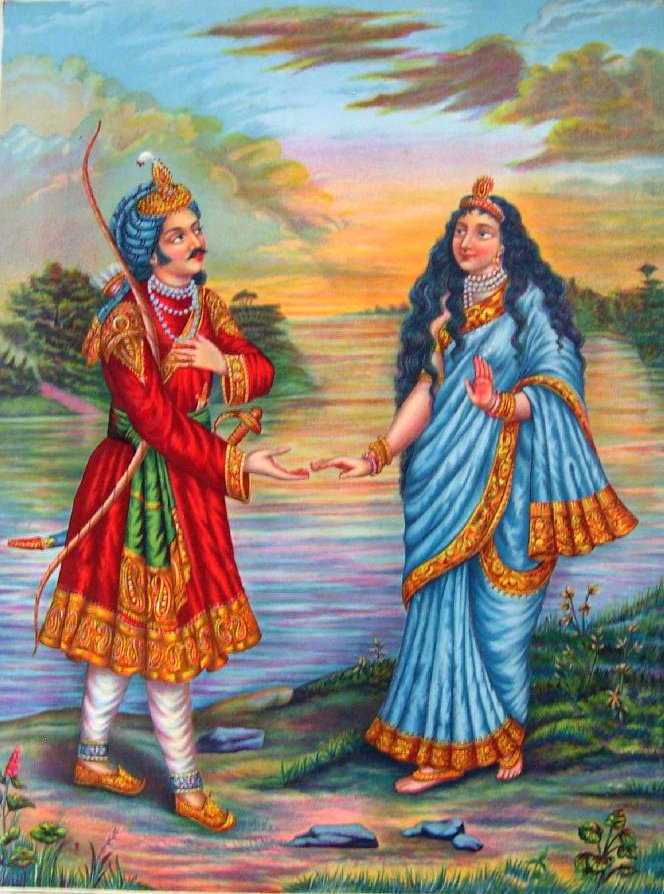 Album of popular prints mounted on cloth pages. Colour lithograph, lettered, inscribed and numbered 19. Santanu, a king of Hastinapura in the Mahabharata, saw a beautiful woman on the banks of the river Ganga and asked her to marry him. Santanu and Ganga are the parents of Bhishma, one of the five Pandava brothers instrumental in the Mahabharata war.